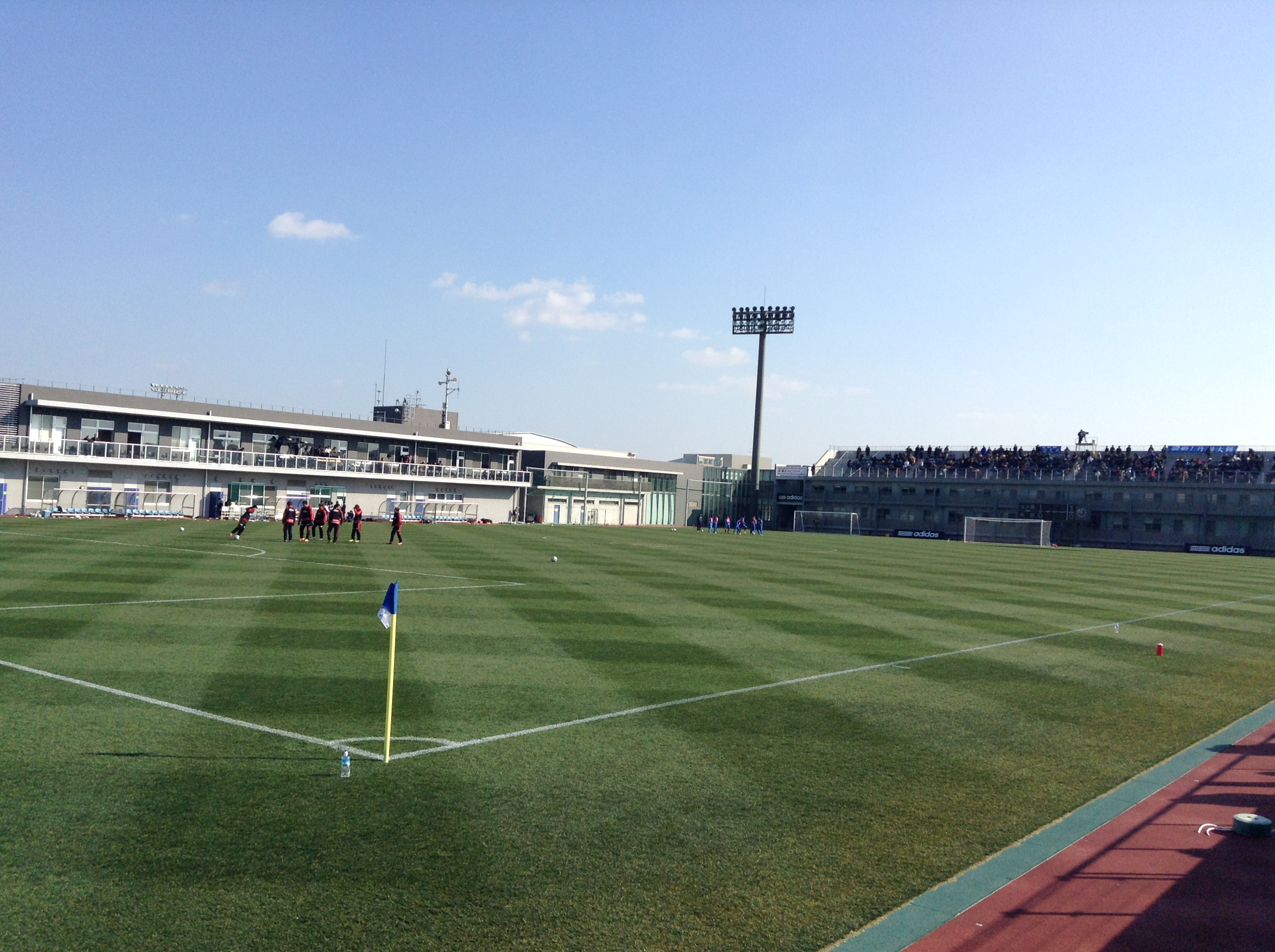 Sakai Soccer National Trading Center (a.k.a J-GREEN Sakai) Main-Field , pre season match , Gamba Osaka vs Kyoto Sanga F.C., 23 February, 2014